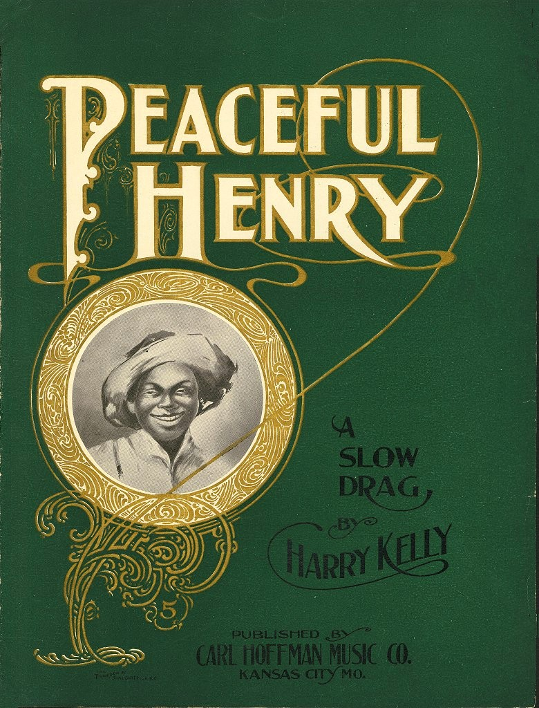 Peaceful Henry, 1901